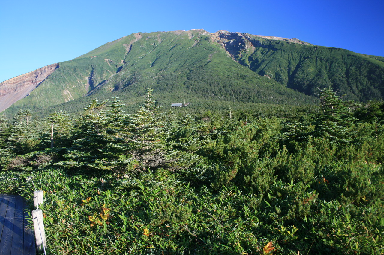 Mount Ontake from_Tanohara